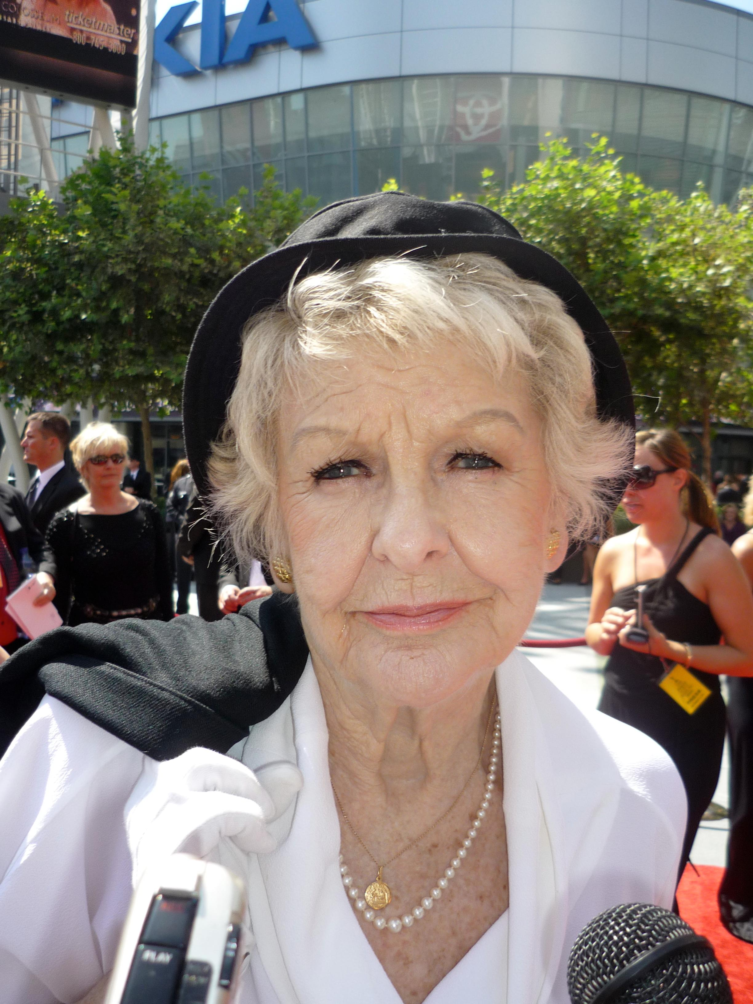 Elaine Stritch at the Creative Arts Emmys on Saturday (Sept. 12) night